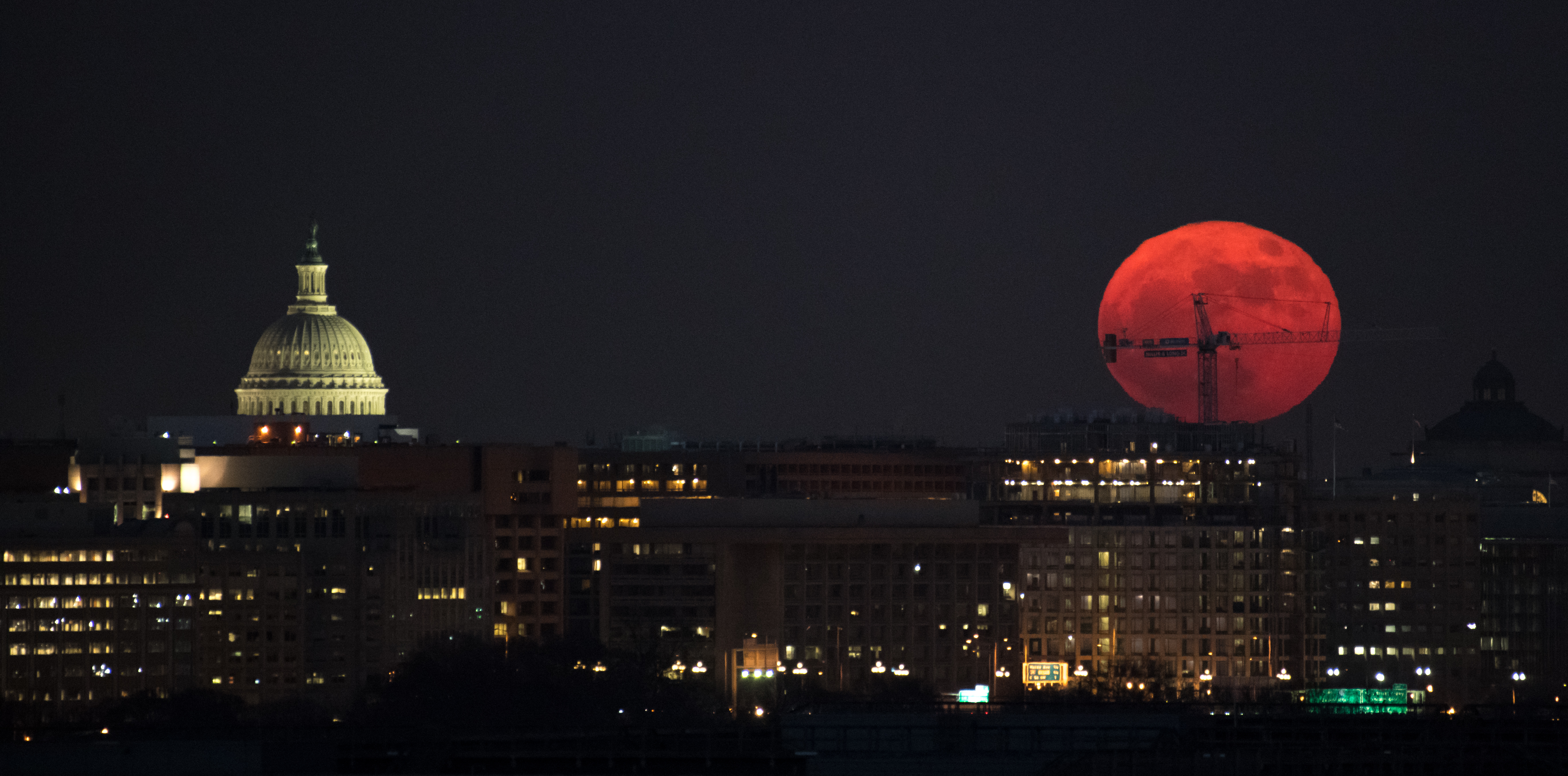 The Moon is seen as is rises, Sunday, Dec. 3, 2017 in Washington. Some people call this a supermoon. A supermoon occurs when the moon’s orbit is closest (perigee) to Earth at the same time it is full, but the apparent size of Moon is not caused by proximity, rather a moon illusion, due to closeness of Moon to the horizon.